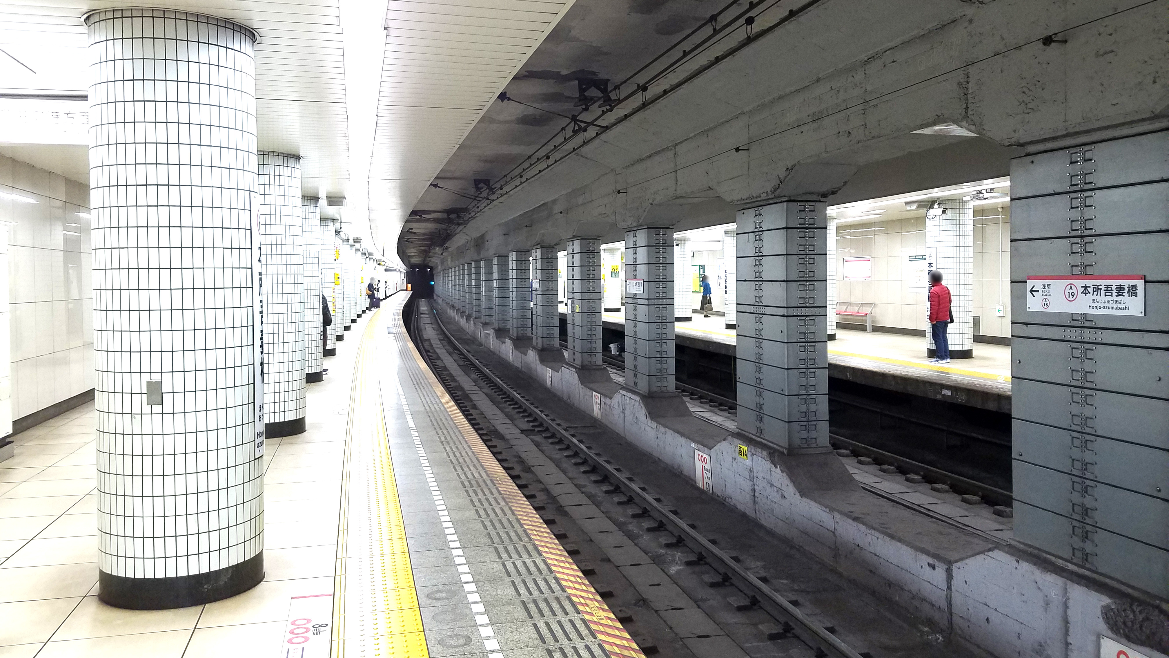 The platforms at Honjo-azumabashi Station on the Toei Asakusa Line in Sumida city, Tokyo, Japan